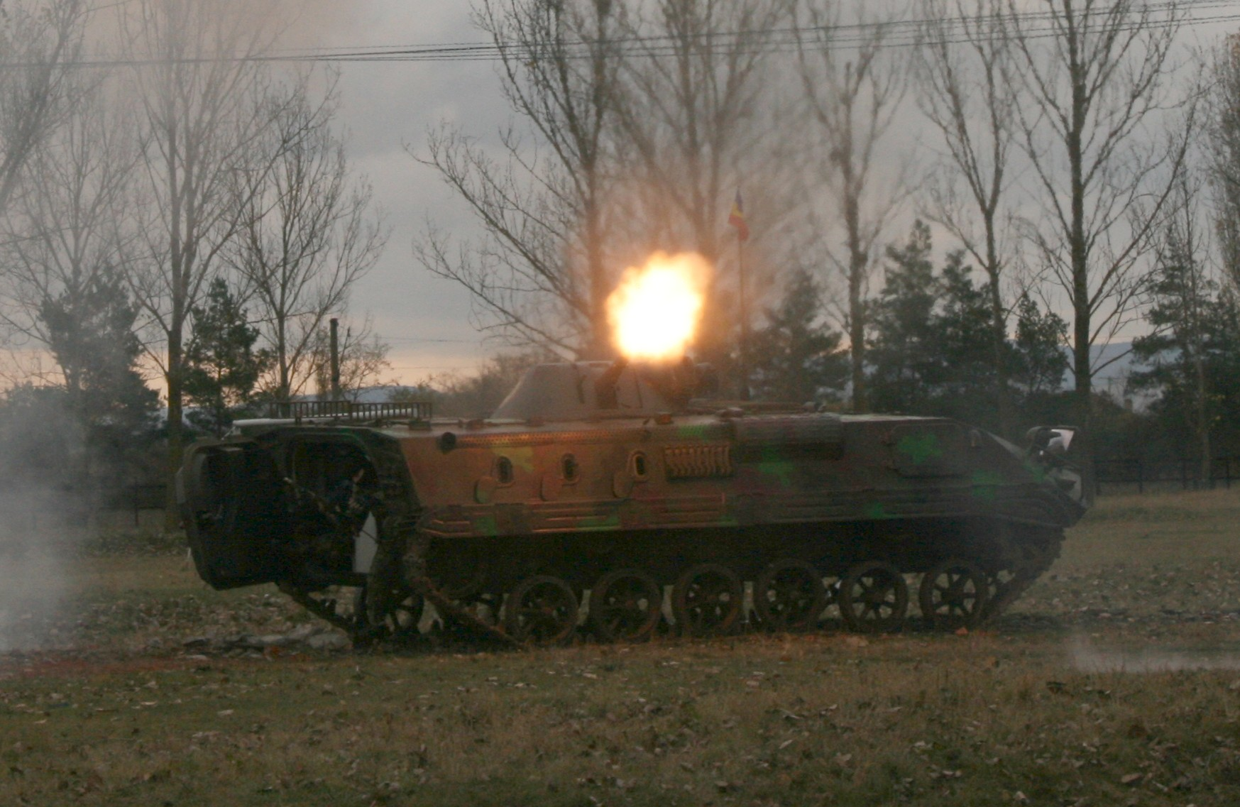 A Romanian MLVM tracked APC firing during a military demonstration.